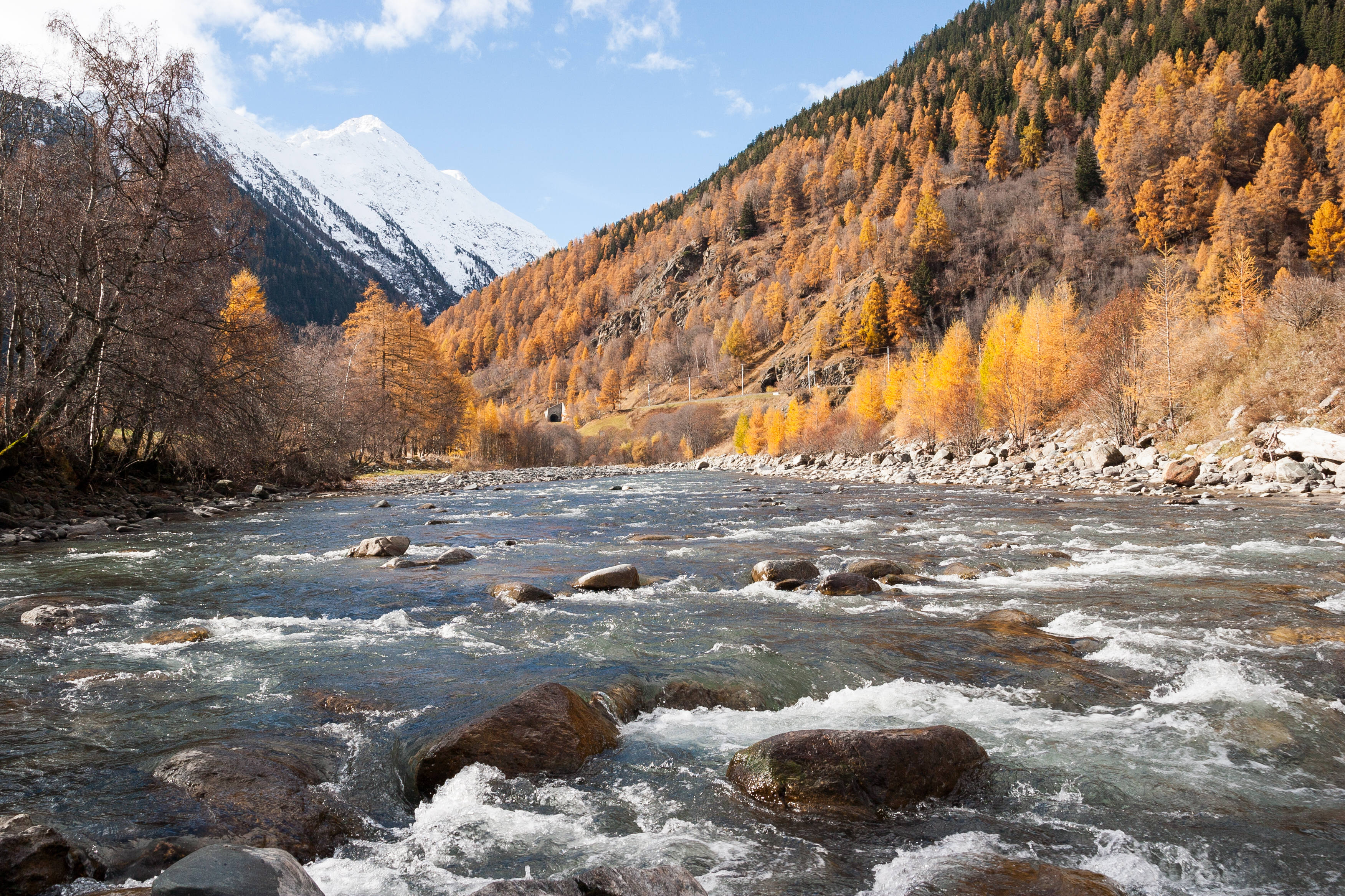 River Inn between Susch and Lavin, Lower Engadine, Switzerland (2008)